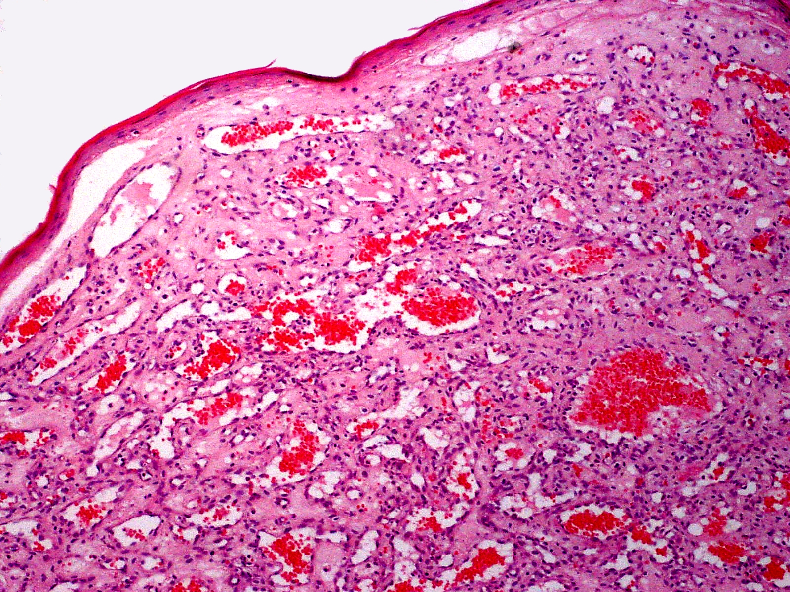 Cherry haemangioma